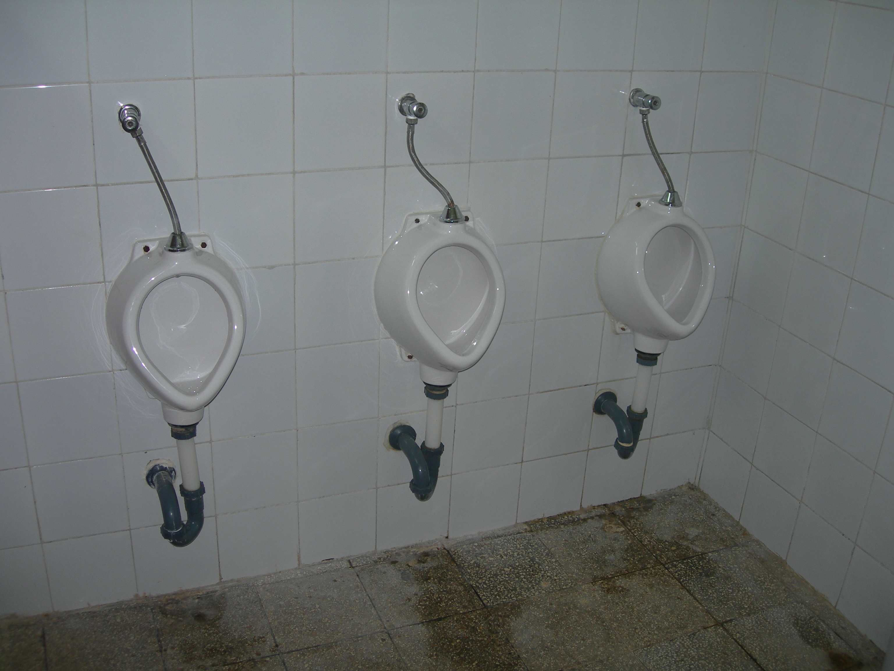 WCs of the Guest's House Jesús Falcón of Agramonte (Cuba).